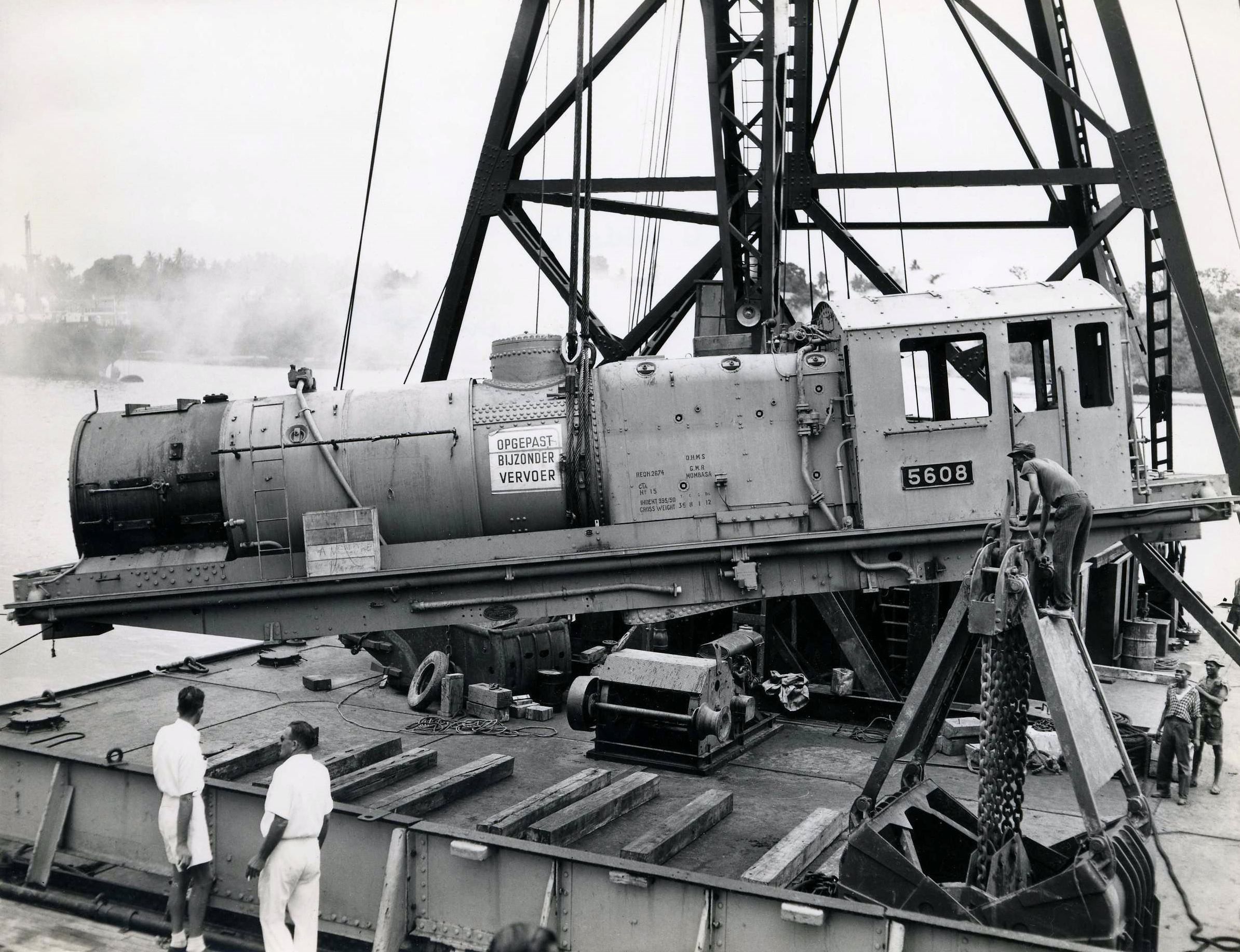 A newly-constructed East African Railways 60 class Garratt locomotive being unloaded at Mombasa, Kenya. The locomotive is seen here fitted with numberplate 5608, but it was renumbered 6002 at about the time it entered service.